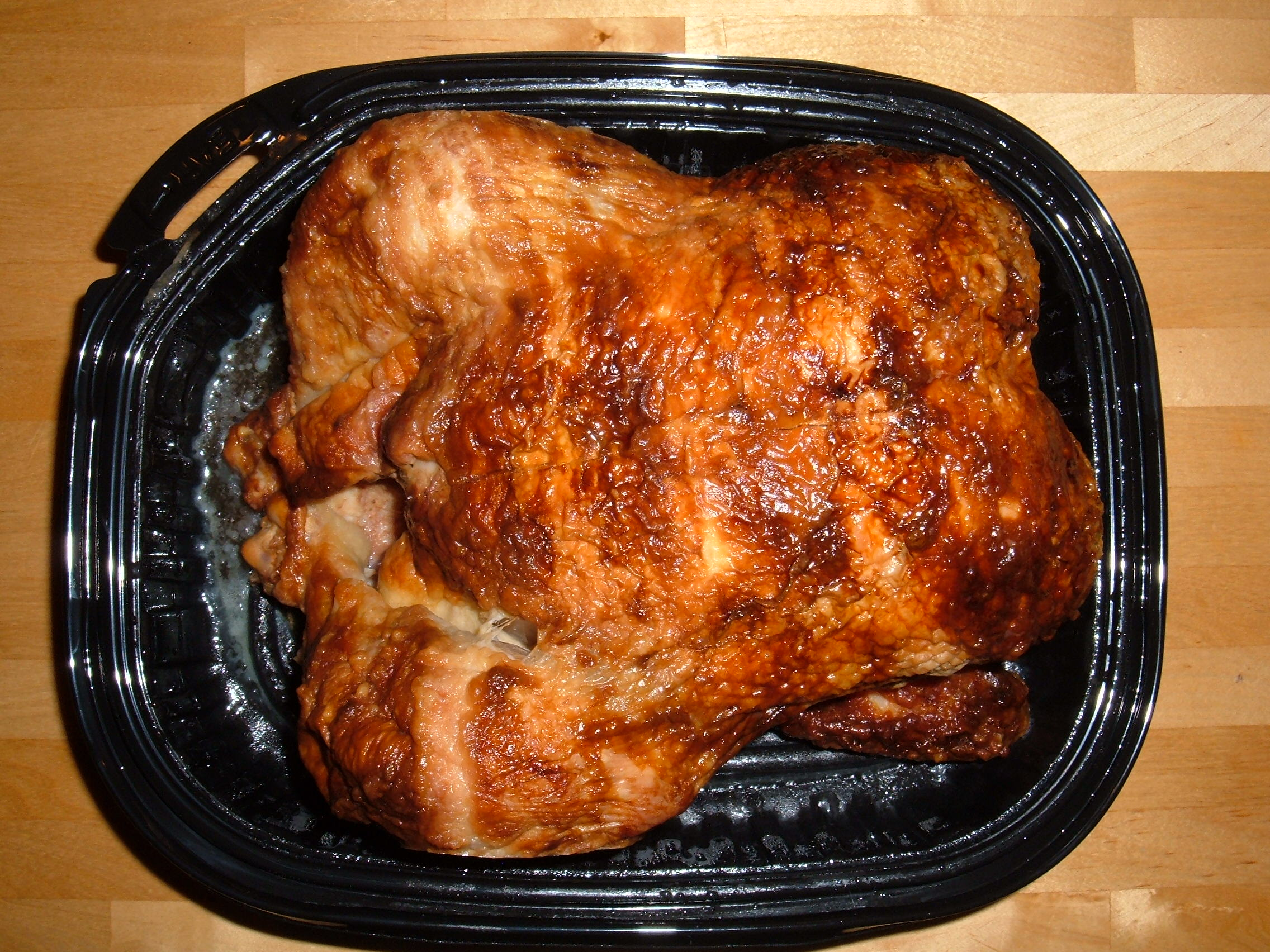 Whole rotisserie chicken. There is a cut about midway that I made before stopping to take this photo.